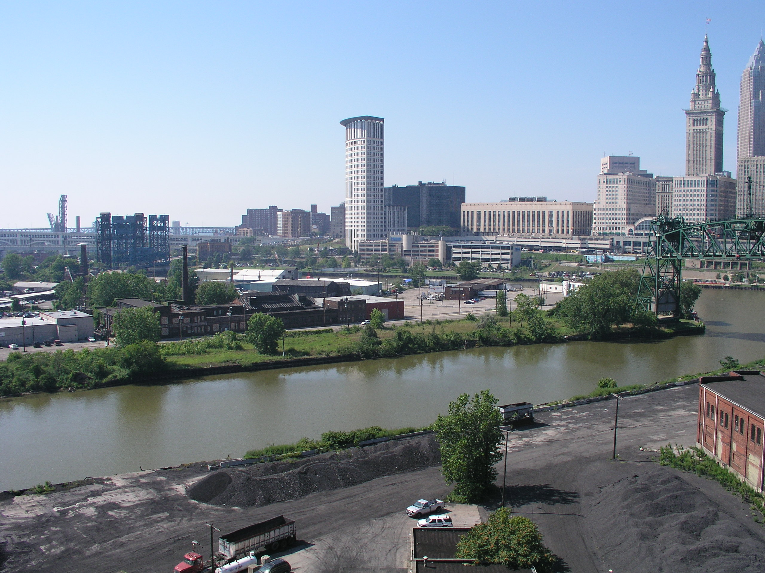 Cuyahoga river and downtown Cleveland. River runs from left to right, then left and (not visible, go right, under concrete arch bridge.